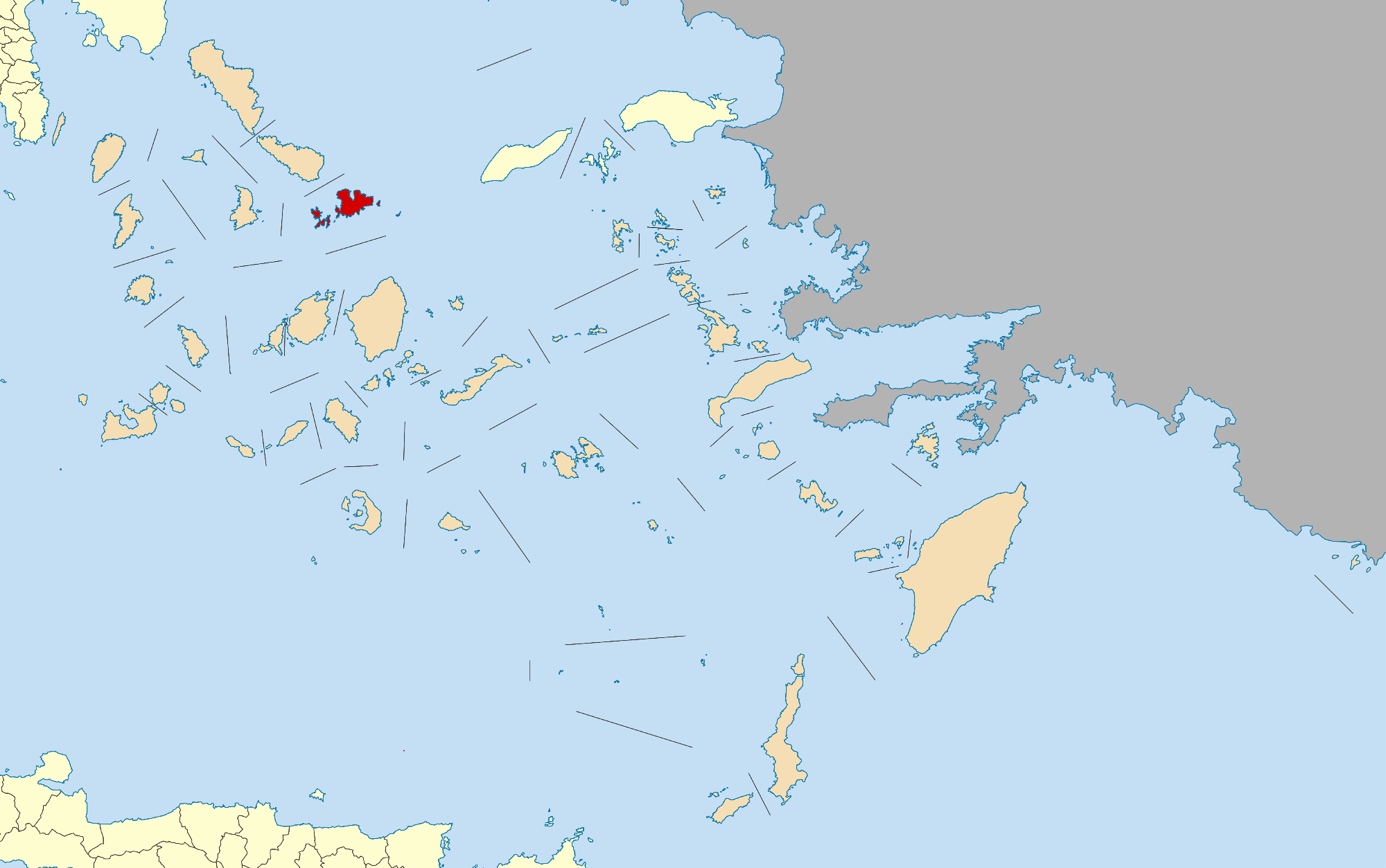 Locator map for Mykonos municipality in Greek region South Aegean (2011)